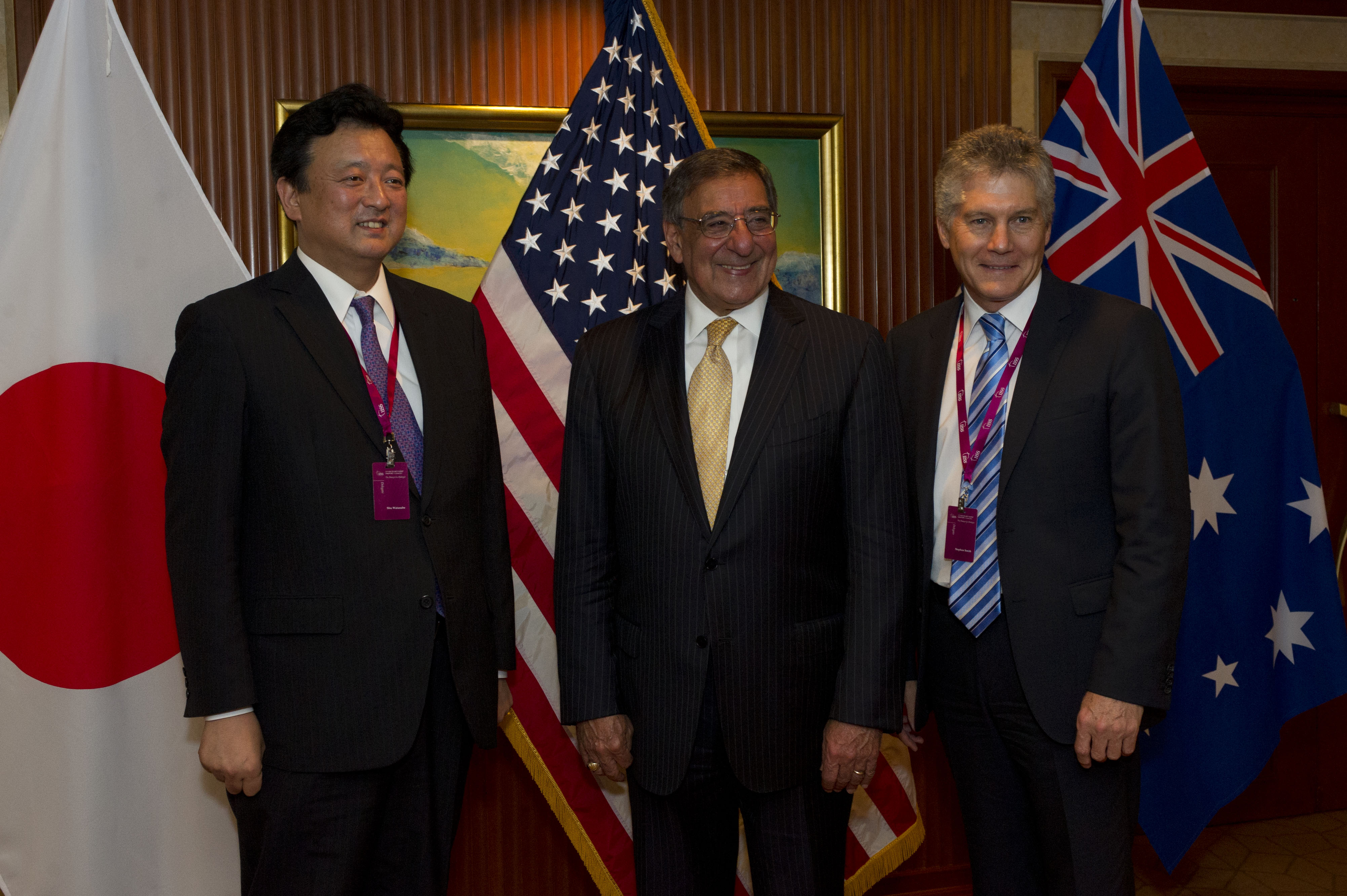 Secretary of Defense Leon E. Panetta poses for an official photograph with Japanese Senior Vice Minister of Defense, Shu Watanabe, and Australian Minister of Defense, Stephen Smith at the Shangri-La Dialogue in Singapore, June 2, 2012. DoD photo by Erin A. Kirk-Cuomo (Released)